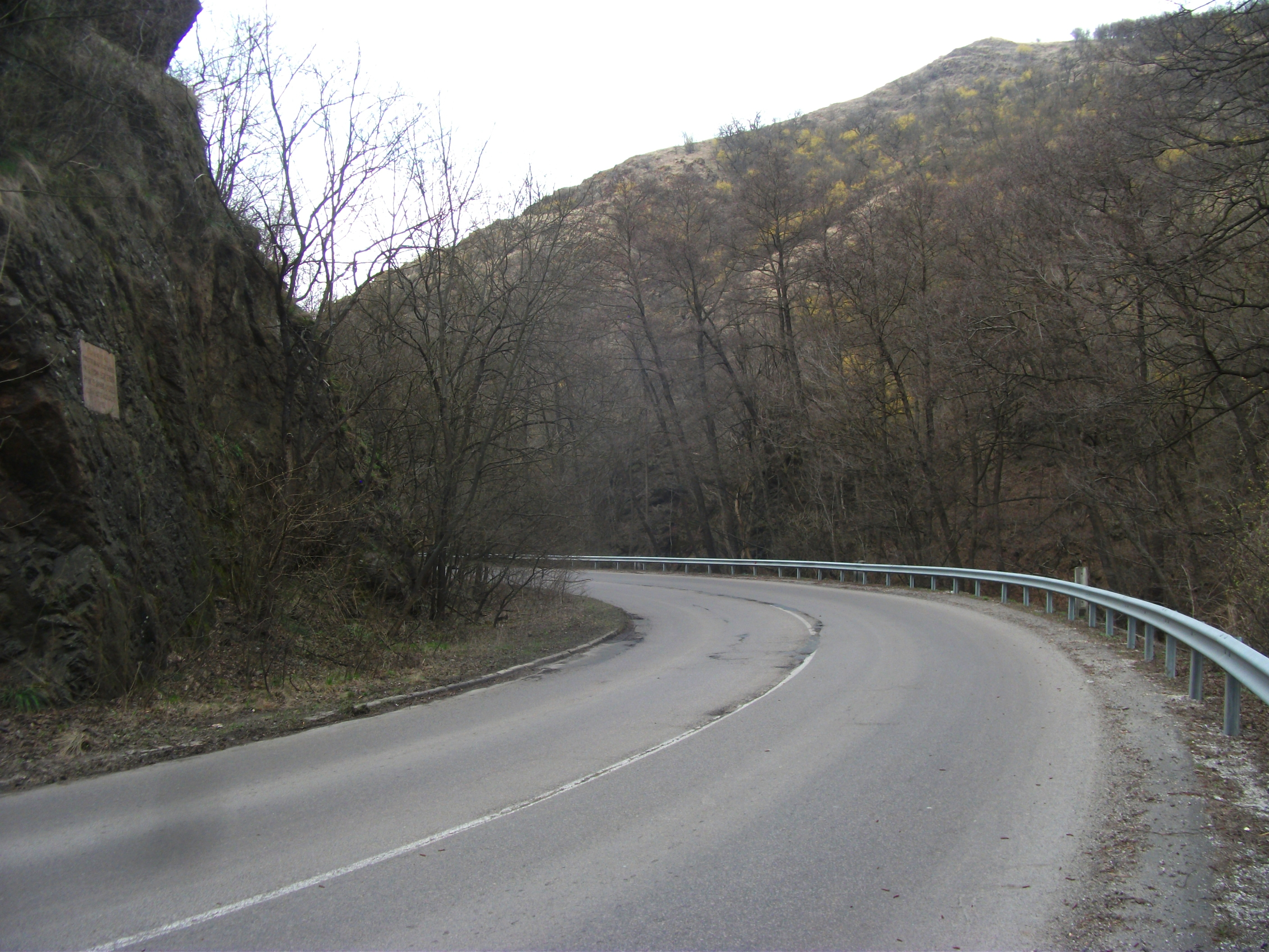 Pyrker Pass on Route 25, in the valley of Eger Stream near Szarvaskő in Hungary. Opened by order of Archbishop János László Pyrker in 1839.